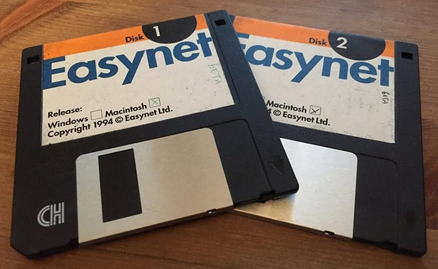 Easynet UK pioneering Internet Service Provider released it's first sign-up discs in 1994